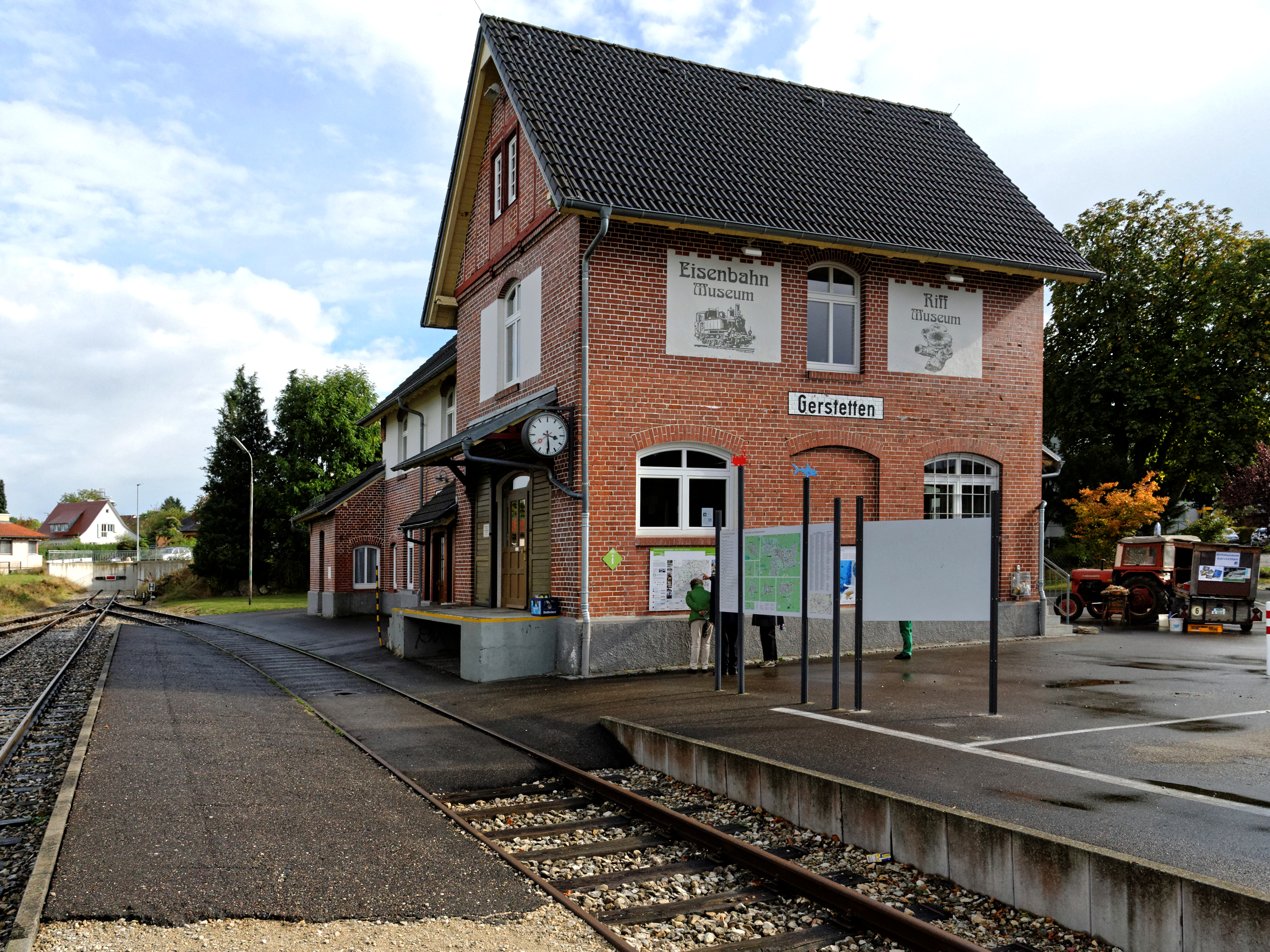 The reef Museum in Gerstetten.